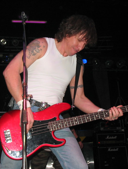 Vitaly Dubinin (Виталий Дубинин), bass guitarist of Russian heavy metal band Aria